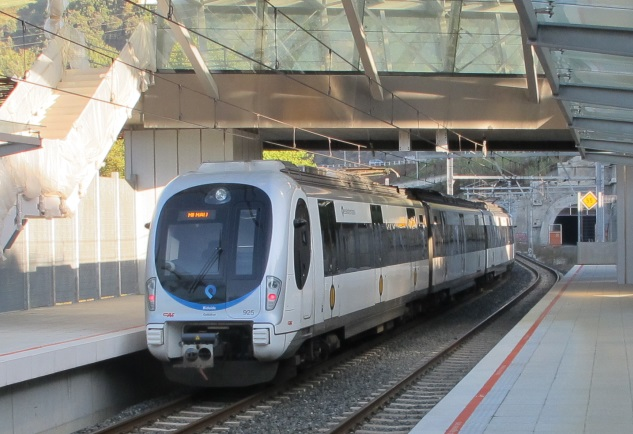 Bilbao Metro Line 3 Etxebarri Norte station